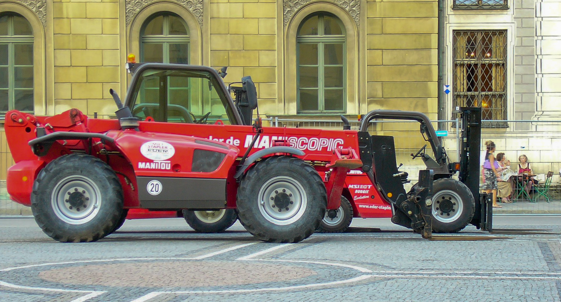 Two Manitou Forklifts/telehandlers